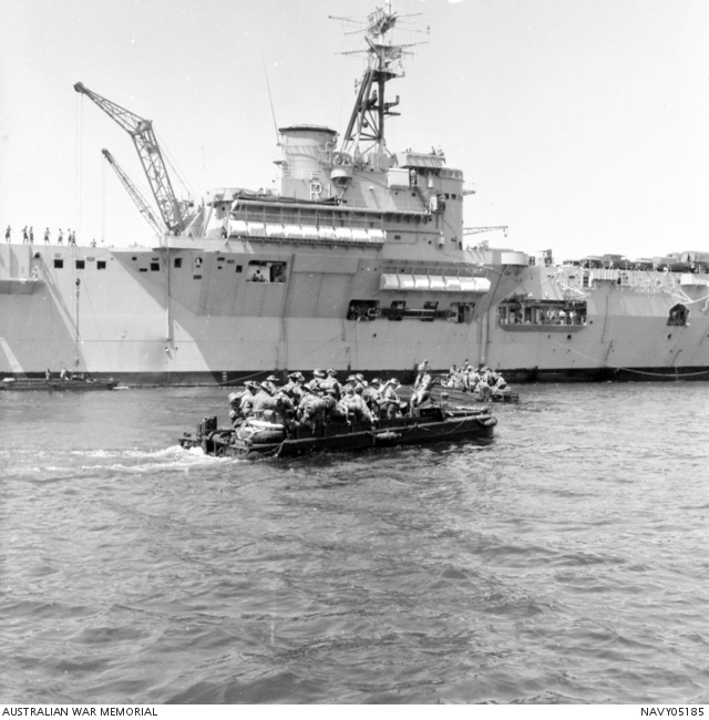 Australian soldiers are being ferried in a small craft, possibly a DUKW, near the troop transport HMAS Sydney on its arrival in North Borneo (Sabah). The ship was carrying army units and their equipment to Malaysia under Australia's increased Defence aid program. The men are probably members of the 7th Field Squadron or 111 LAA Battery.